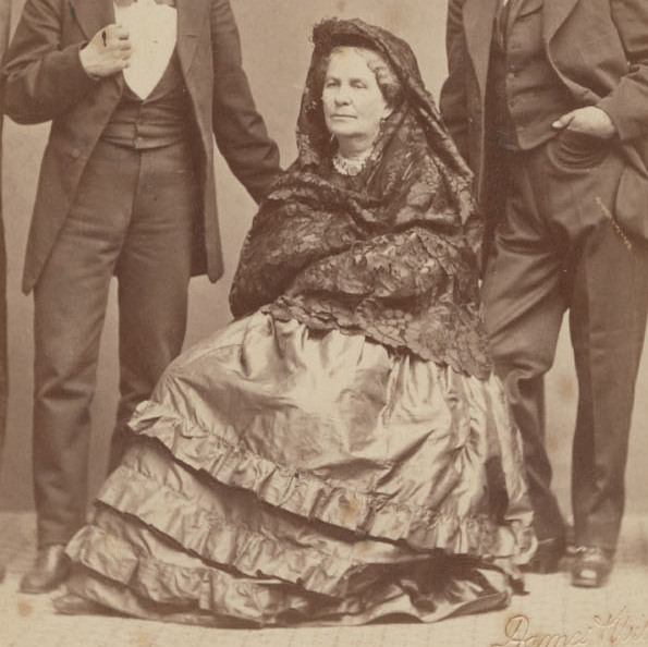 [Maria de las Angustias Josefa Antonia Bernabe or Doña Angustias de la Guerra (1815-1890), daughter of José de la Guerra y Noriega] Creator/Contributor: Dames & Williams, Photographer Date: [ca. 1885?] Contributing Institution